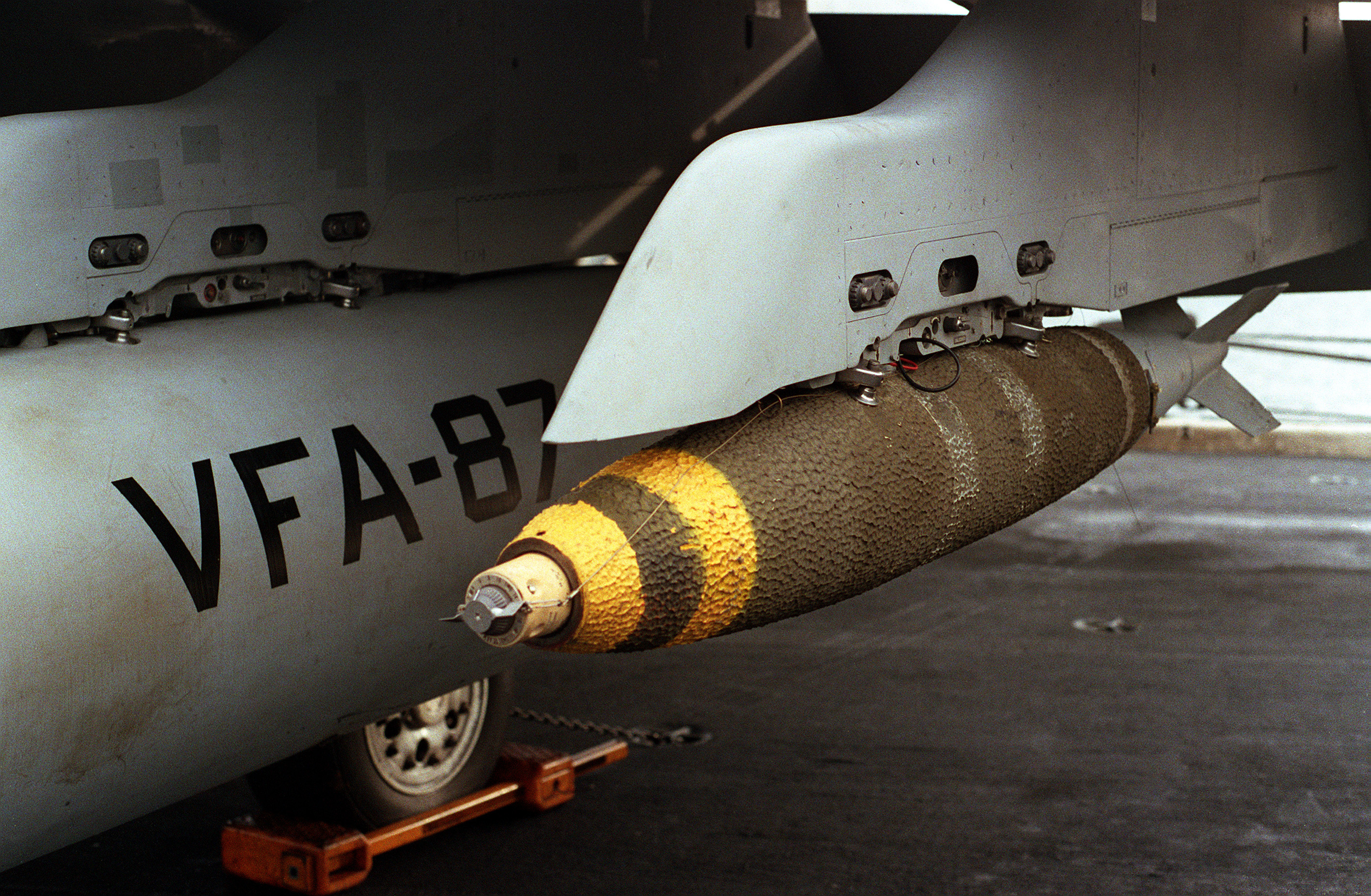 A Mk 82 227 kg (500 lbs) general-purpose bomb hangs from a pylon beneath the wing of a Strike Fighter Squadron 87 (VFA-87) F/A-18A Hornet aircraft aboard the nuclear-powered aircraft carrier USS Theodore Roosevelt (CVN-71) during Operation Desert Storm.